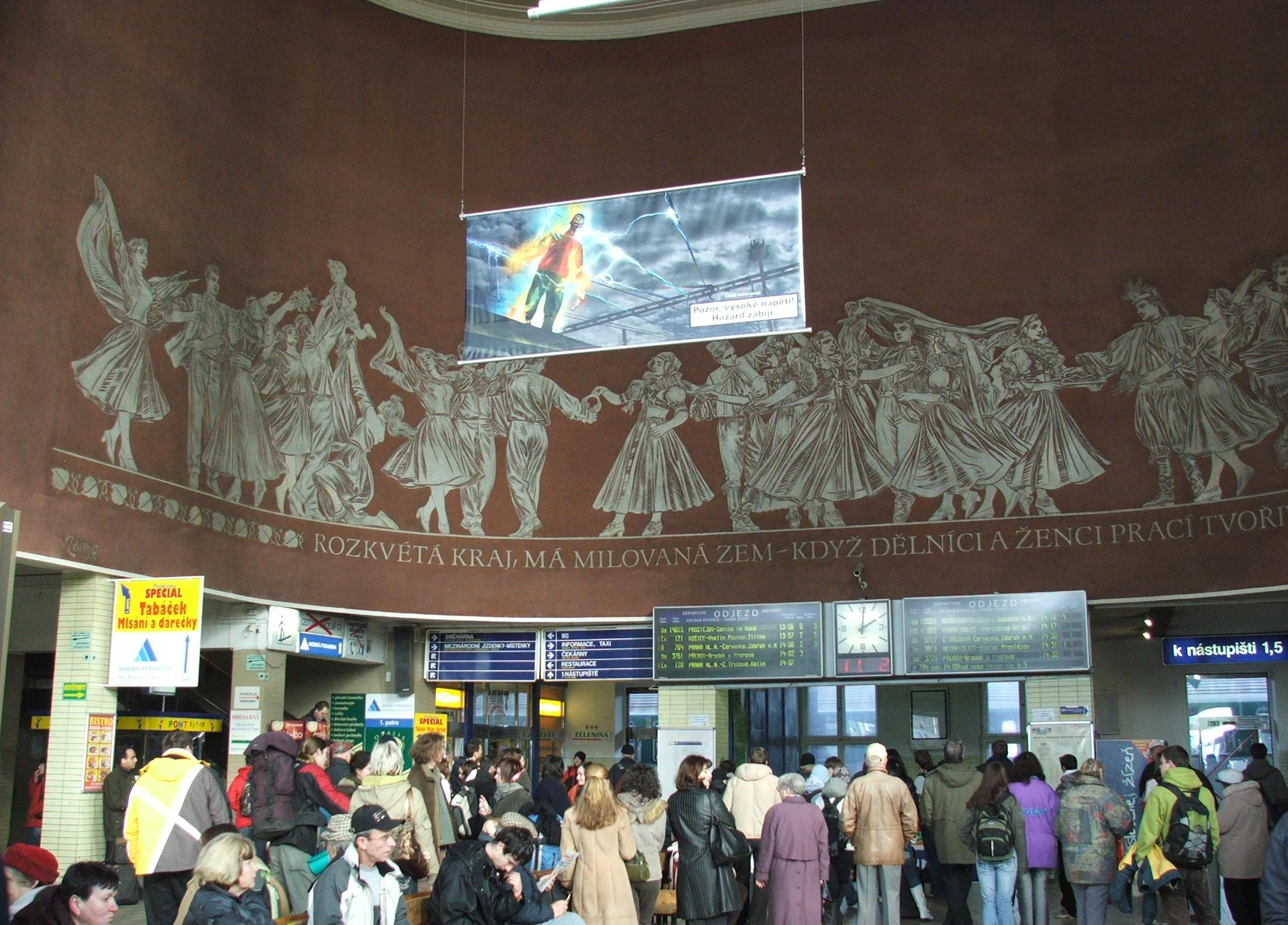 Interior of railway station in Olomouc, Olomouc Region, Czechia. Sgraffitto made by Wilhelm Zlamal